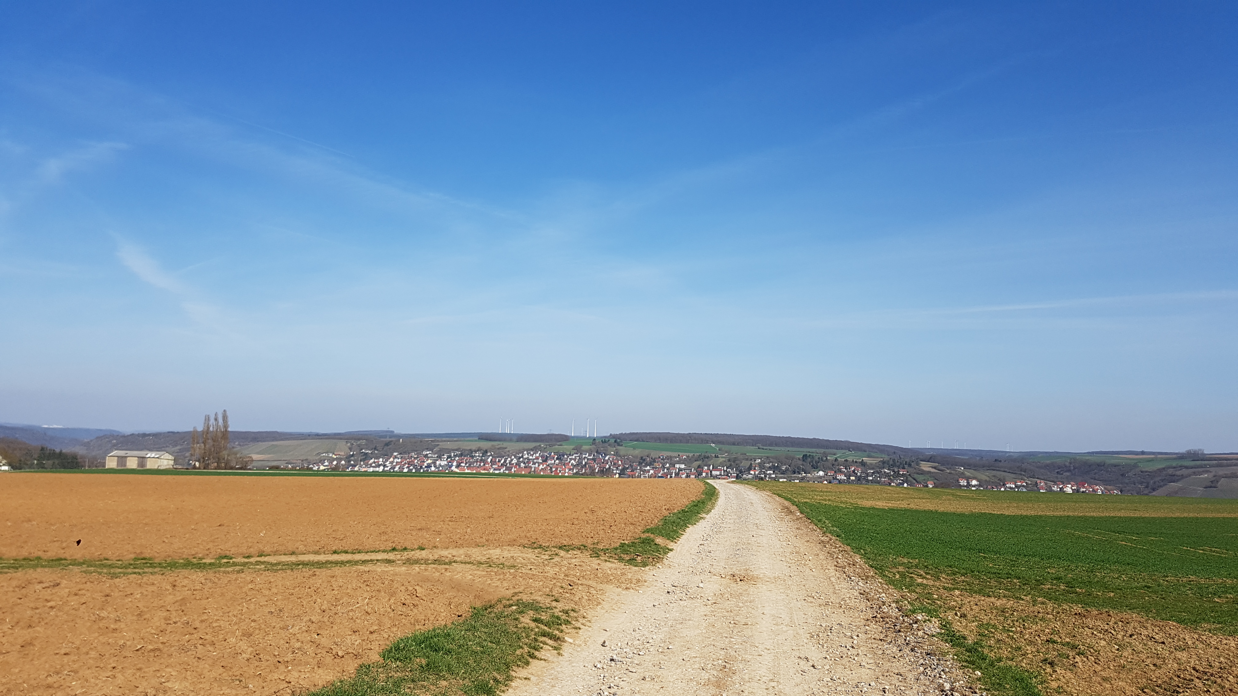 Pilgrims way named "Via Romea" between Ochsenfurt and Aub